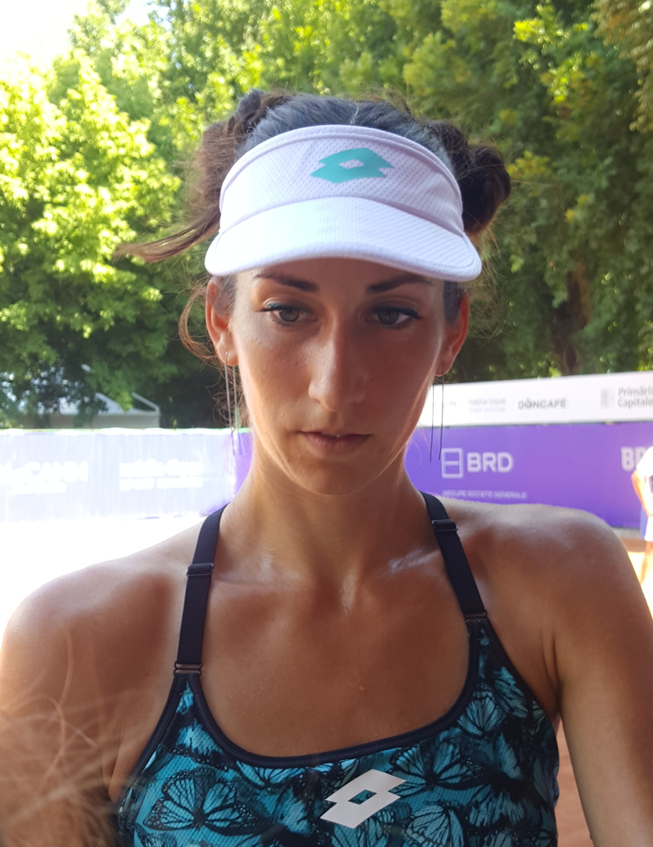 Georgina García Pérez competing in the second round of the 2018 Bucharest Open Qualifying Tournament at the Arenele BNR in Bucharest, Romania. The winners of three rounds of competition qualify for the main draw of Bucharest Open the following week.